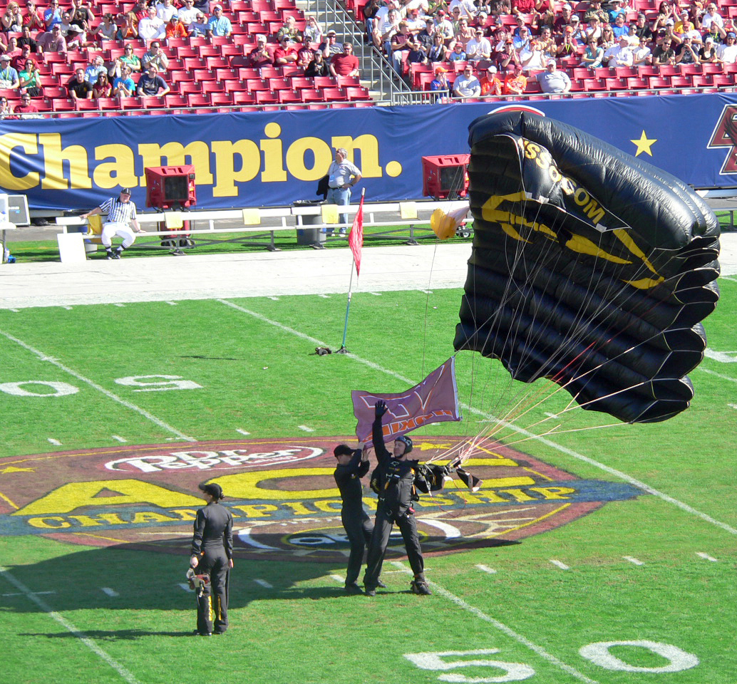 A parachutist lands at midfield of Raymond James Stadium prior to the 2008 ACC Championship Game.